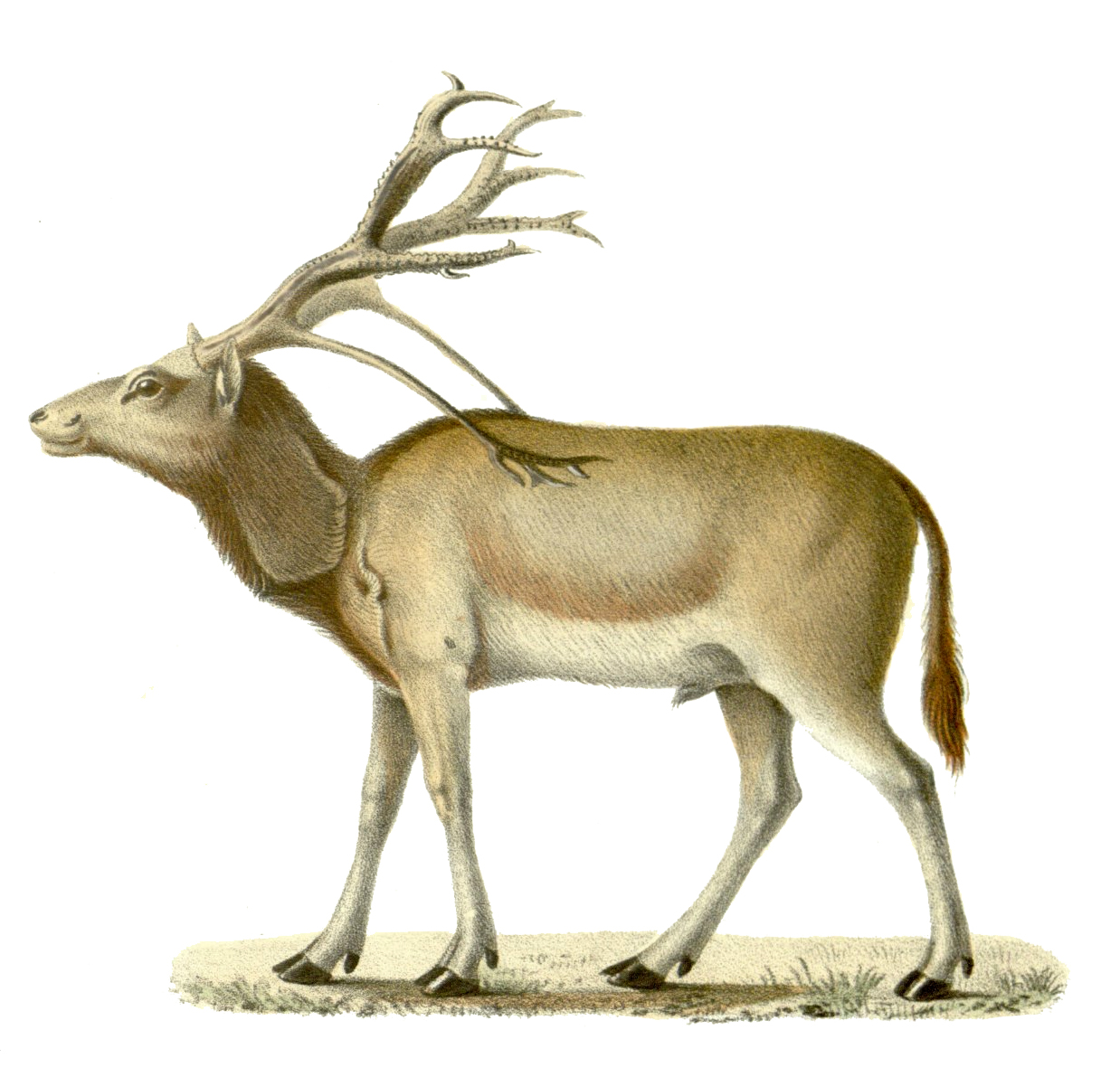 Elaphurus davidianus